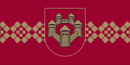 Frag of Tērvete municipality